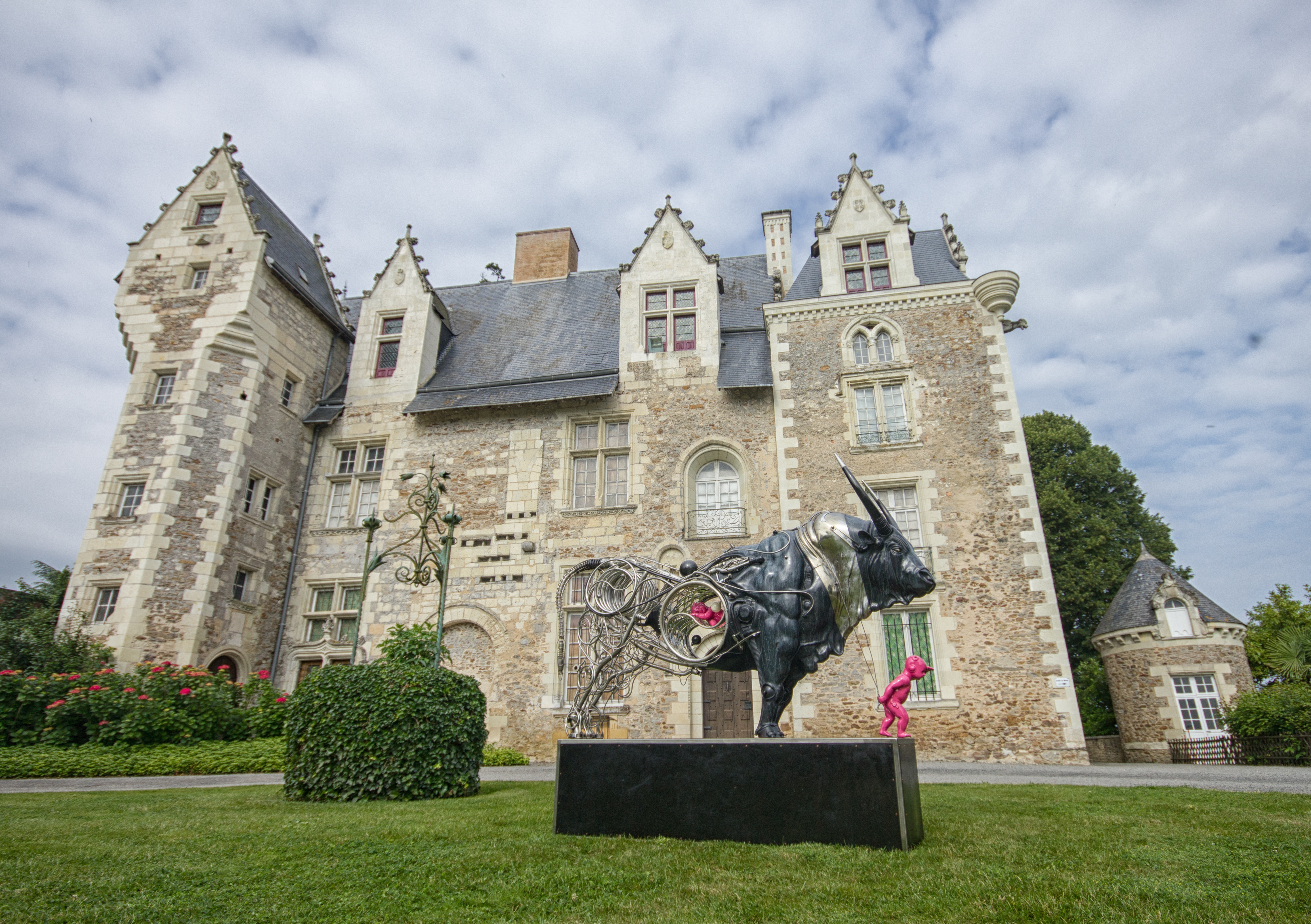 caste of Villevêque